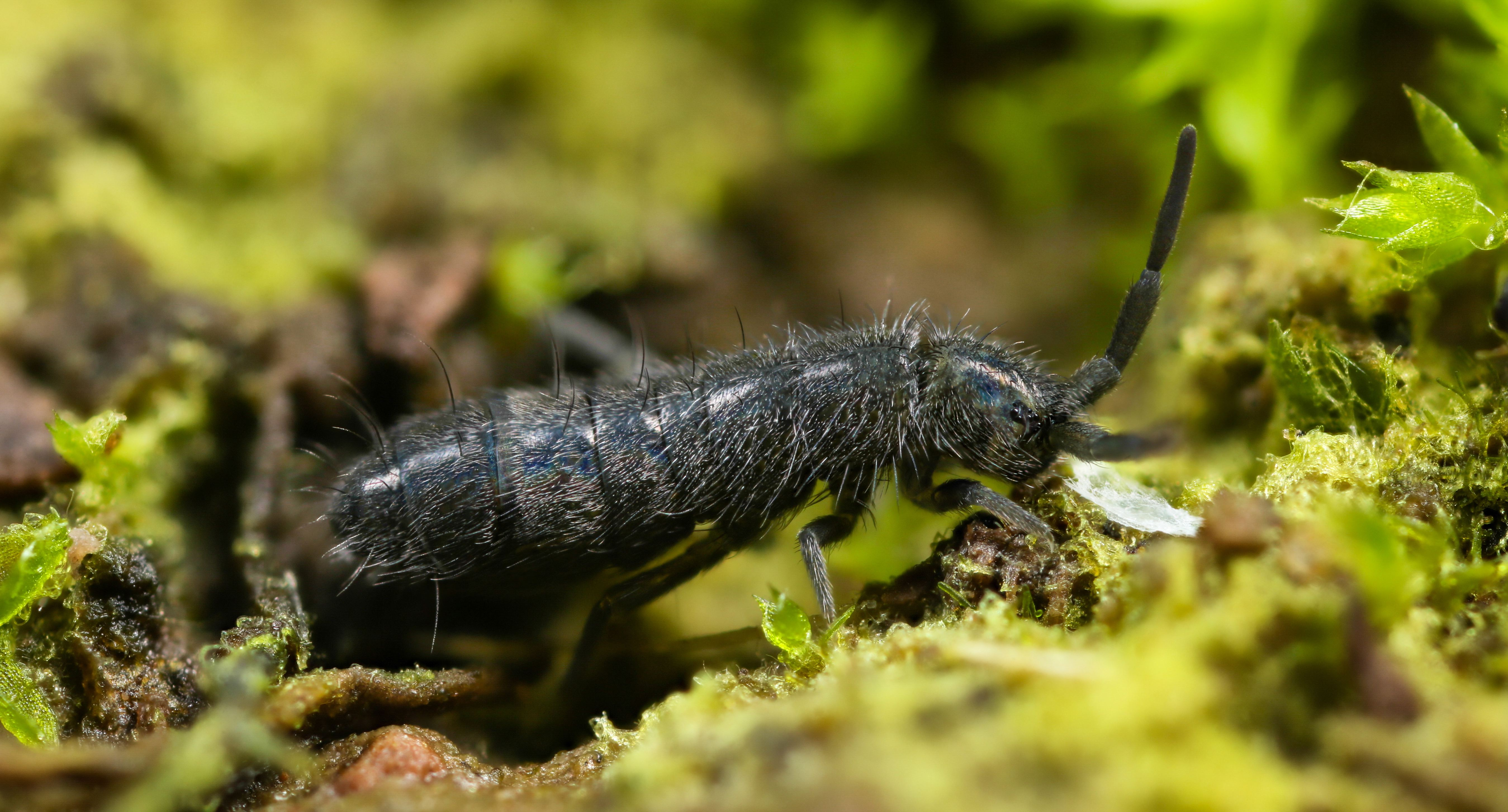 Isotoma caerulea? from Dundon, England. Original description on Flickr: This is a four photo stack from yesterday from just outside my door, of what I think is I. caerulea, meaning blue. It is most definitely pigmented blue, as you can see, though I think I. anglicana can be a little bit too. Anyway, that's what I'm going for!